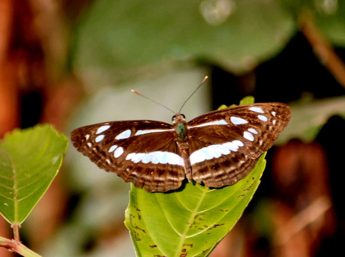 Chestnut Streaked Sailer